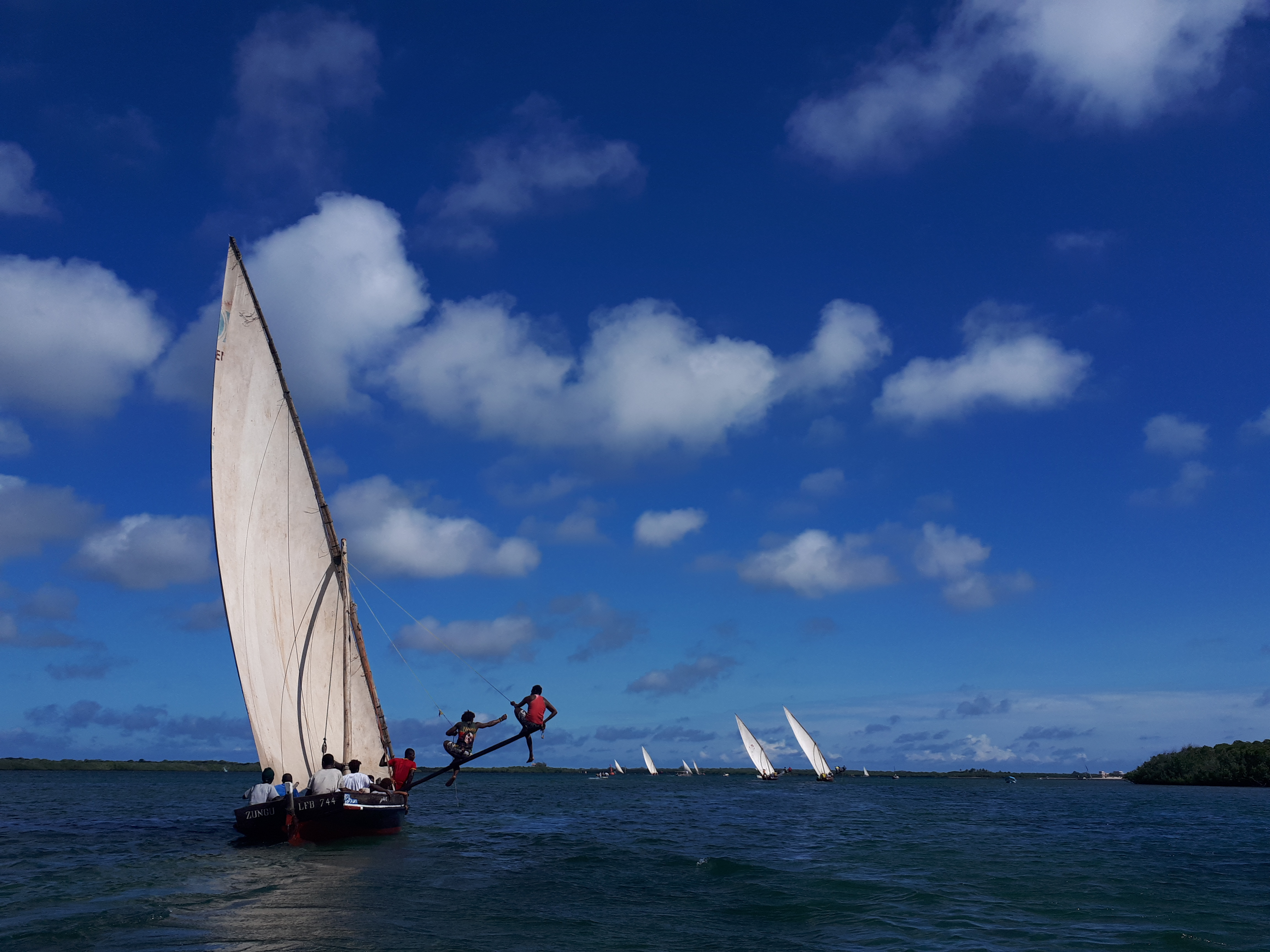 This is an image with the theme "Africa on the Move or Transport" from: Kenya